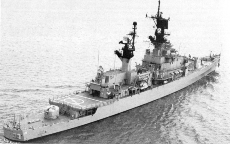 The U.S. Navy guided missile cruiser USS Belknap (CG-26) underway, circa in the 1980s.